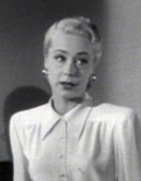 Cropped screenshot of June Havoc from the trailer for the film Gentleman's Agreement. Cropped further from Image:June Havoc in Gentleman's Agreement trailer.jpg